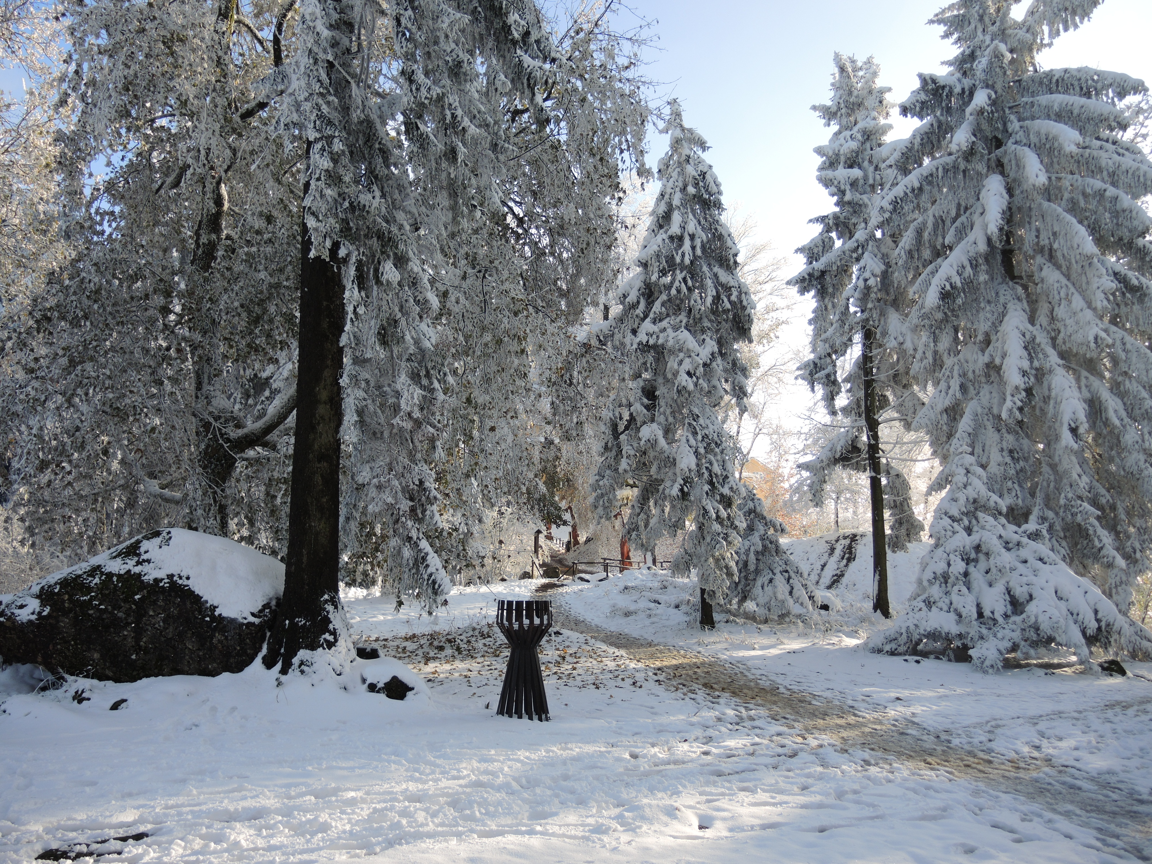 Uetliberg Uto Kulm : location of the 1st millennium BC celtic oppidum respectively the medieval Uetliburg castle.